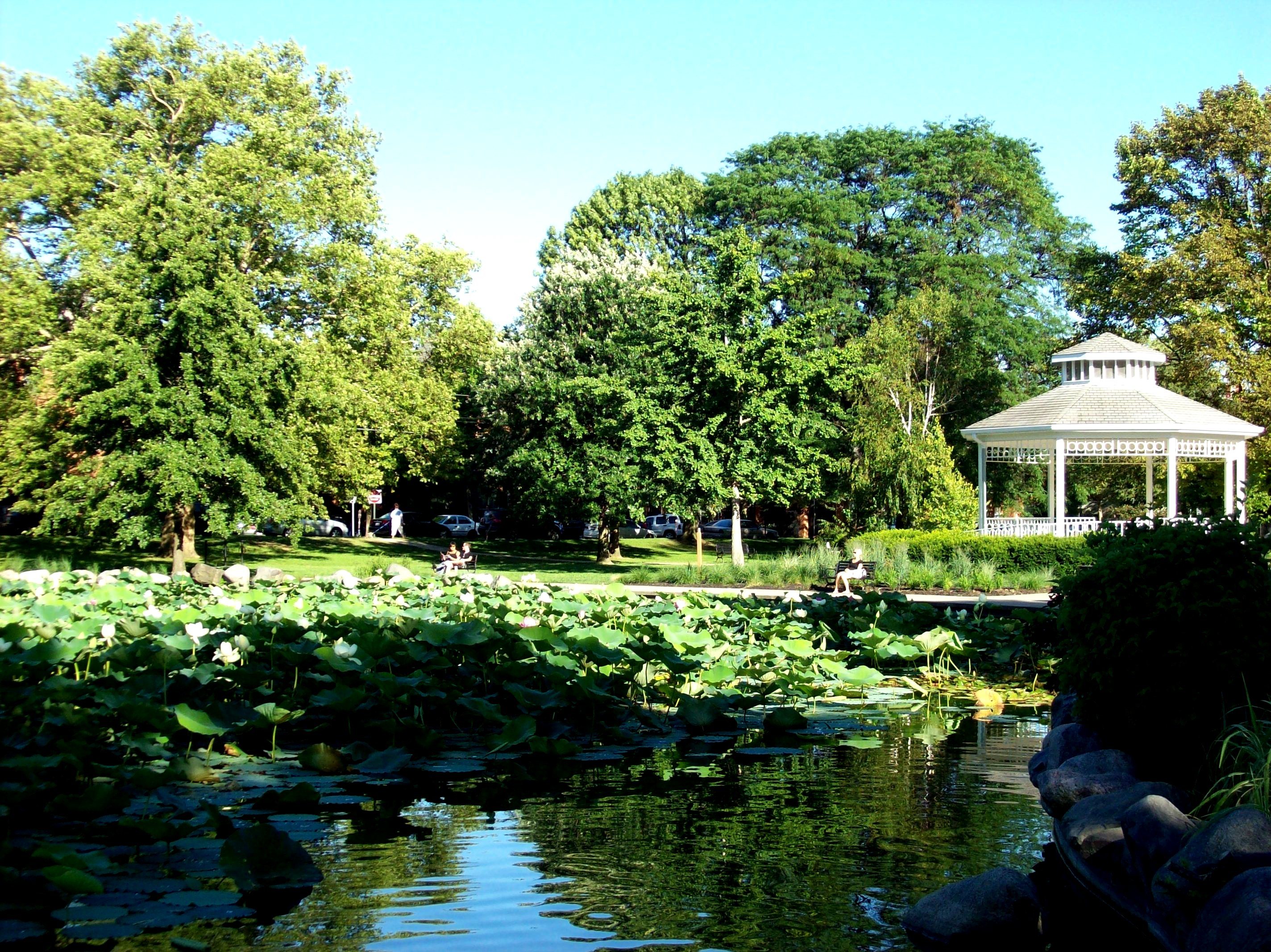 Goodale Park